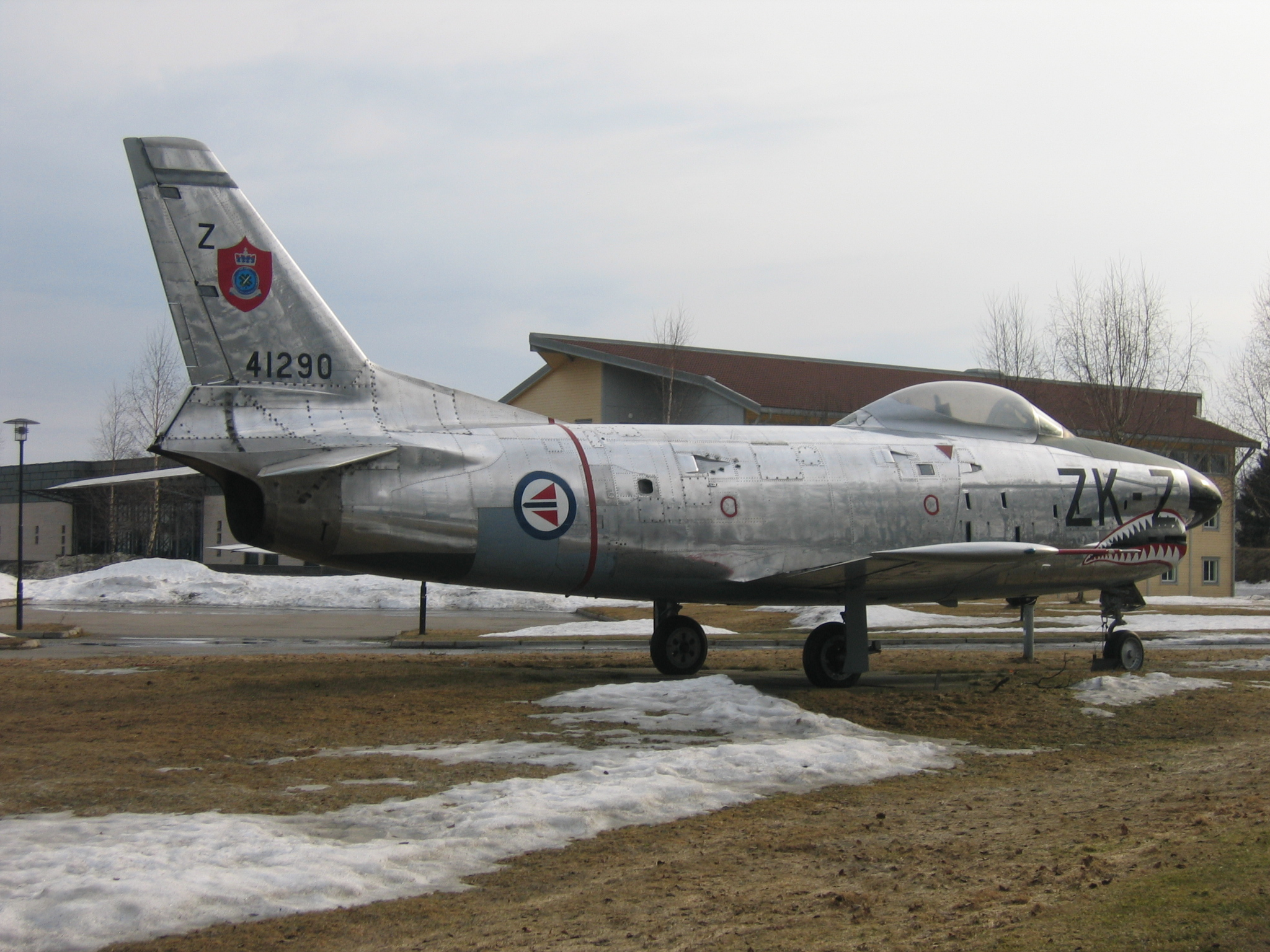 North American F-86K from Royal Norwegian Air Force. RNoAF acquired 60 of these U.S.-built F-86K Sabres in 1955-1956.